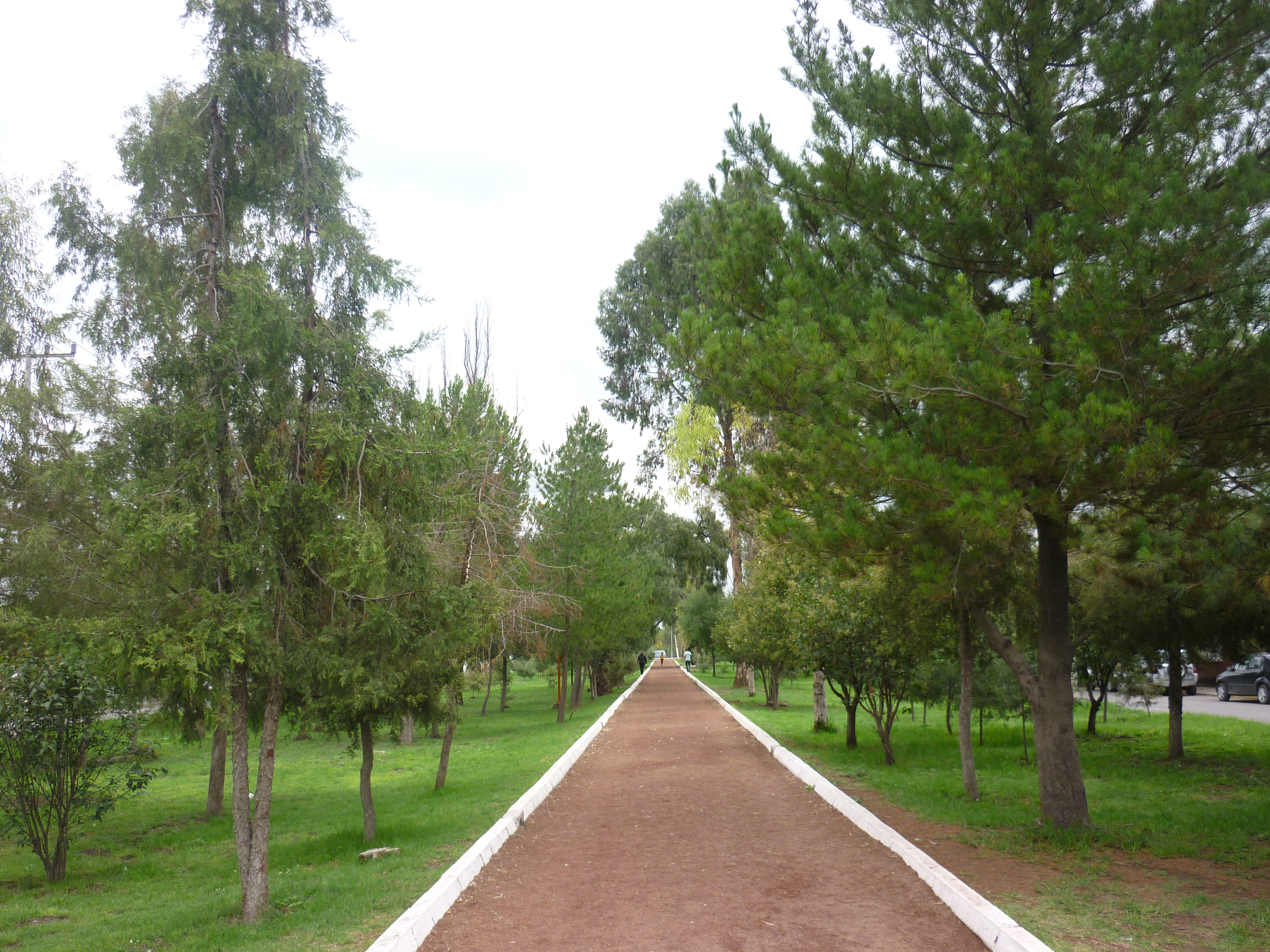 Boulevard in Ojo de Agua, Tecamac